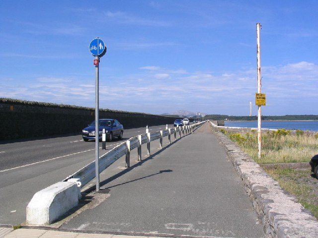 Stanley embankment. This view was taken from SH284798 looking WNW along the causeway at Stanley Embankment.